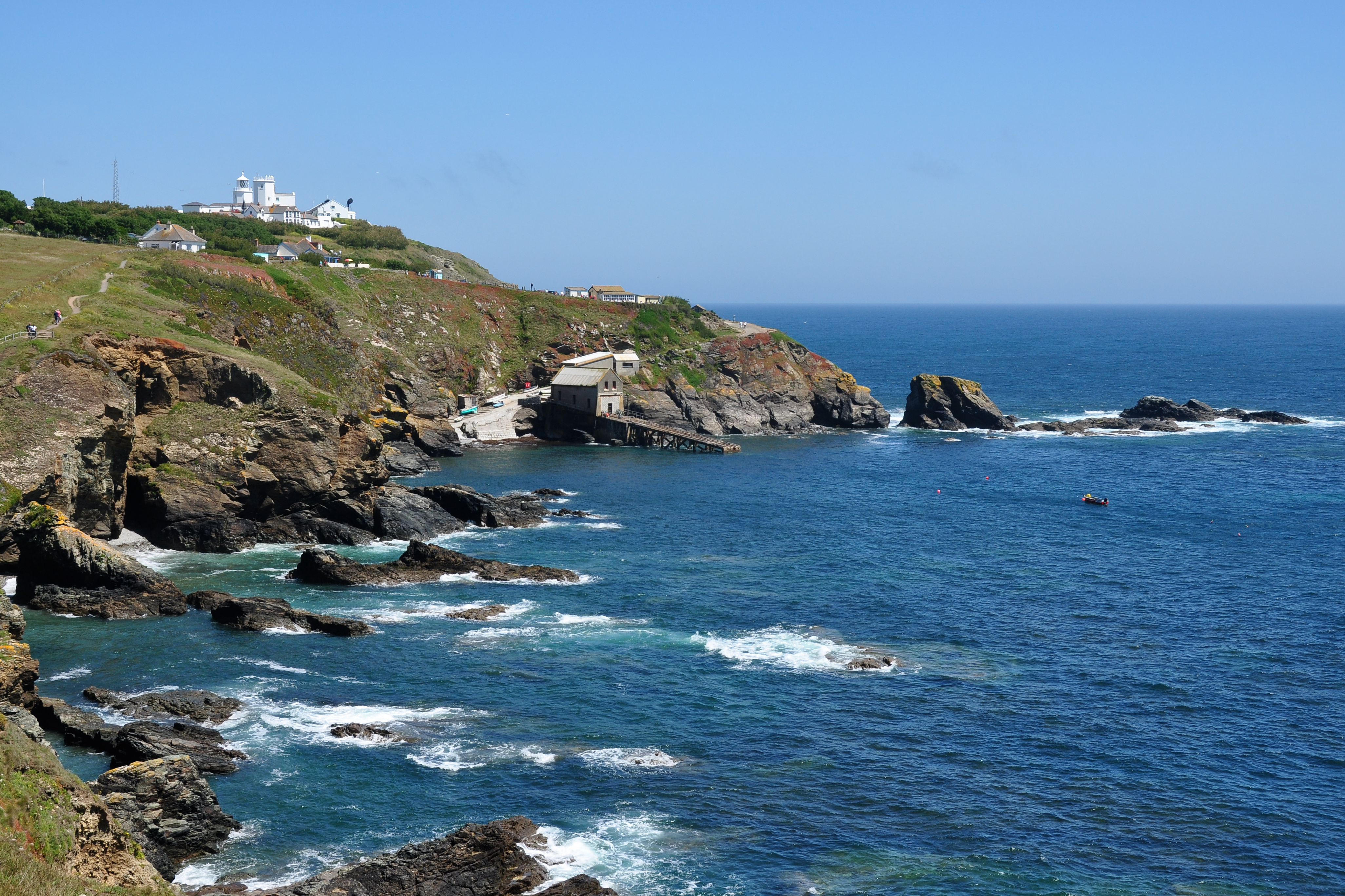 Lizard Point in Cornwall, the most southerly point of mainland Britain, as seen from the west.